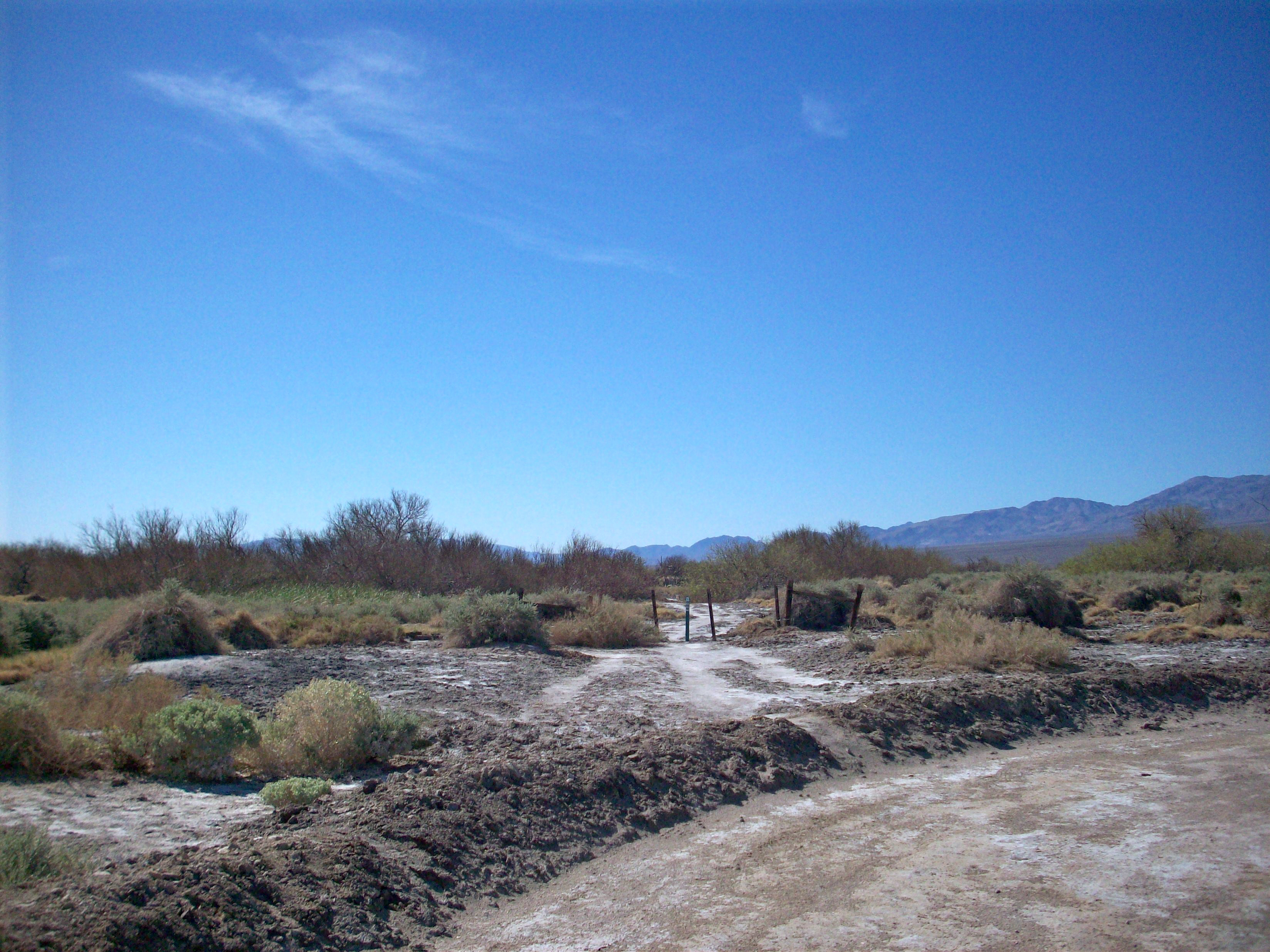 Photograph of Tule Springs, an archaeological site in Death Valley, California.